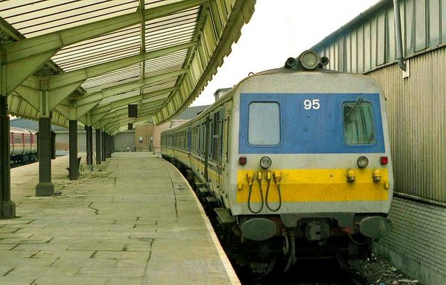 York Road station, Belfast (2). York Road station opened in 1848. It served most of Cos Antrim, Londonderry and part of Tyrone. It was almost destroyed by the Luftwaffe. Its importance declined along with that of railways generally. Damaged several times during the bombing campaign in Belfast, it was reduced in status by the diversion of Londonderry/Portrush trains (via Antrim and Lisburn) to Belfast Central in 1978. When the photo was taken it served only Larne line trains. Work was then underway on the new cross-harbour line 4750. See also 498060. Continue to 1756636. The station closed the following year to be replaced by the adjacent Yorkgate 345632 and was subsequently demolished. The train is the 10.00 to Whitehead. Note: the Google map is completely awry - the positioning was made using the 1980 OSNI 1:10,000 Belfast street map.